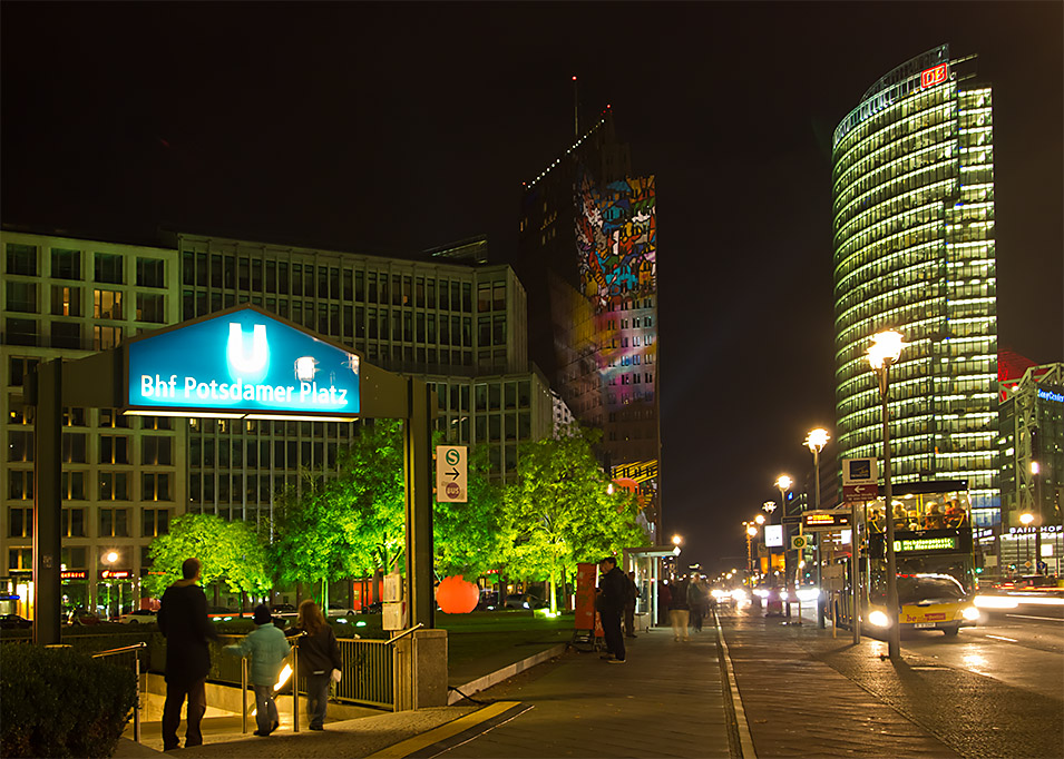 Leipziger Platz at the Festival of Lights 2013 in Berlin with the entrance to the U-Bahn station Potsdamer Platz (line U2). Behind the Kollhoff-Tower and Bahn-Tower on the Potsdamer Platz, Germany. (OA204130_v3)